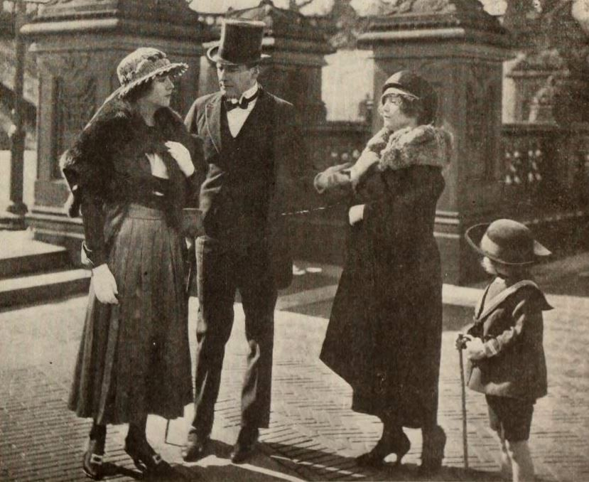 Still from the American drama film As a Man Thinks (1919) with Leah Baird, Henry Clive, Mlle. Elaine Amazar, and Baby Ivy Ward (credited as Bobby Ward), on page 23 of the May 24, 1919 Exhibitors Herald.